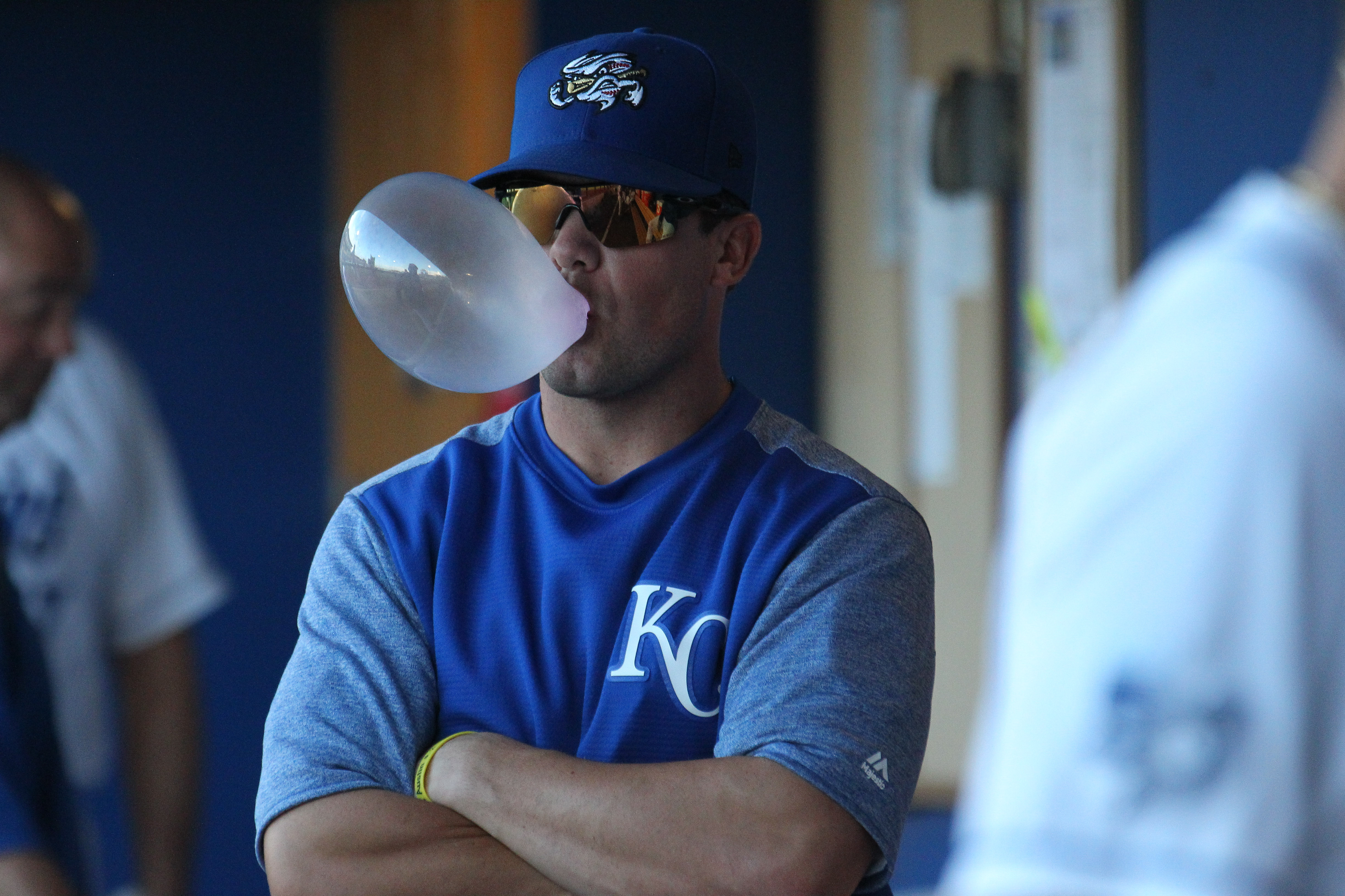 Minda Haas Kuhlmann, 2018 USAGE INSTRUCTIONS: You are welcome to share or publish to your own site or social media account, but you MUST credit me, Minda Haas Kuhlmann. Twitter: @minda33. Instagram: minda.haas